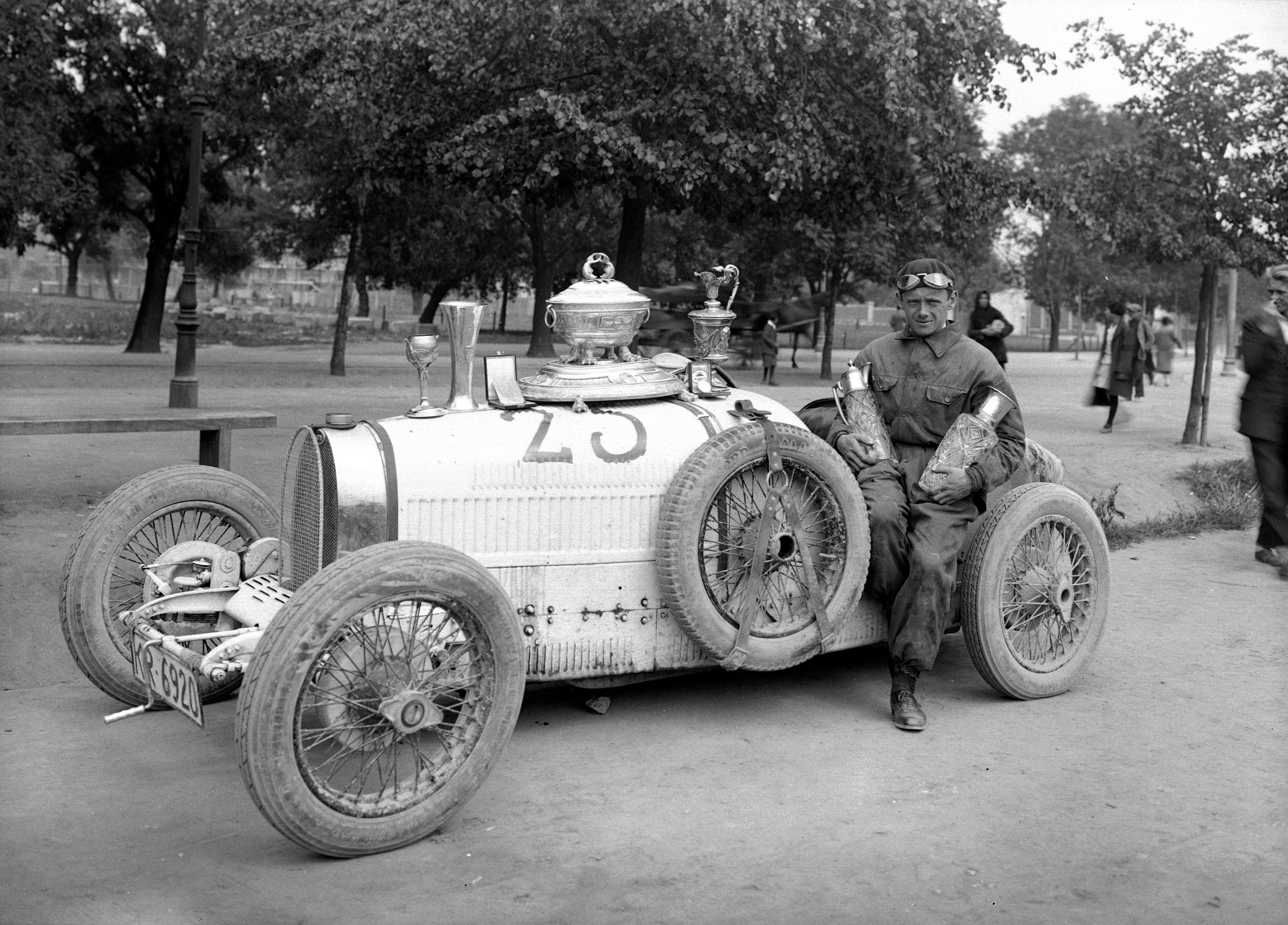 1st International Tatra Rally, Poland, August 1928. Jan Ripper, the winner of Tatra Rally, with trophies.